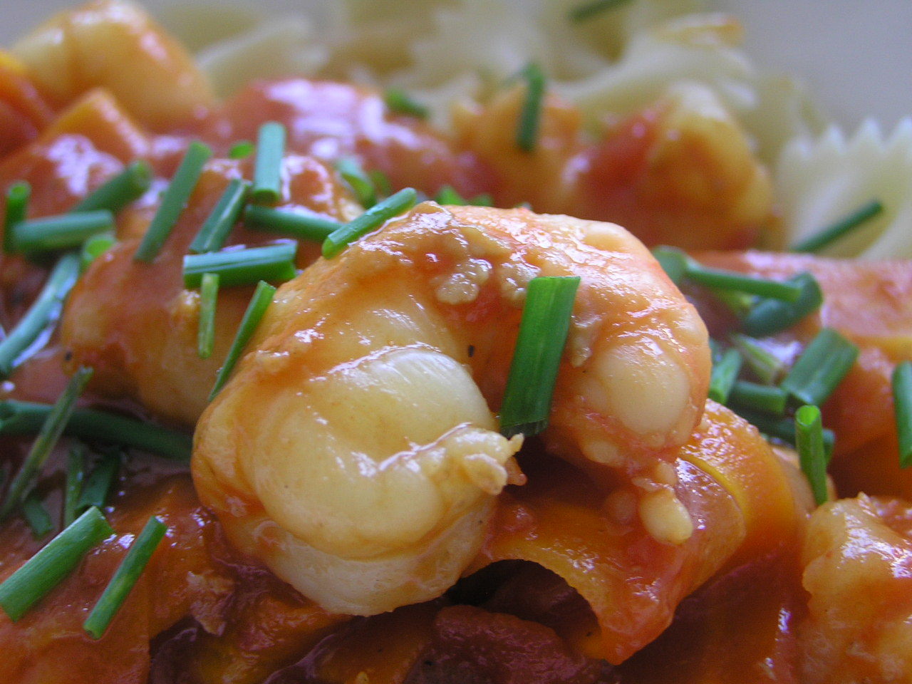 Cooked prawns, usually called scampi.Scampi